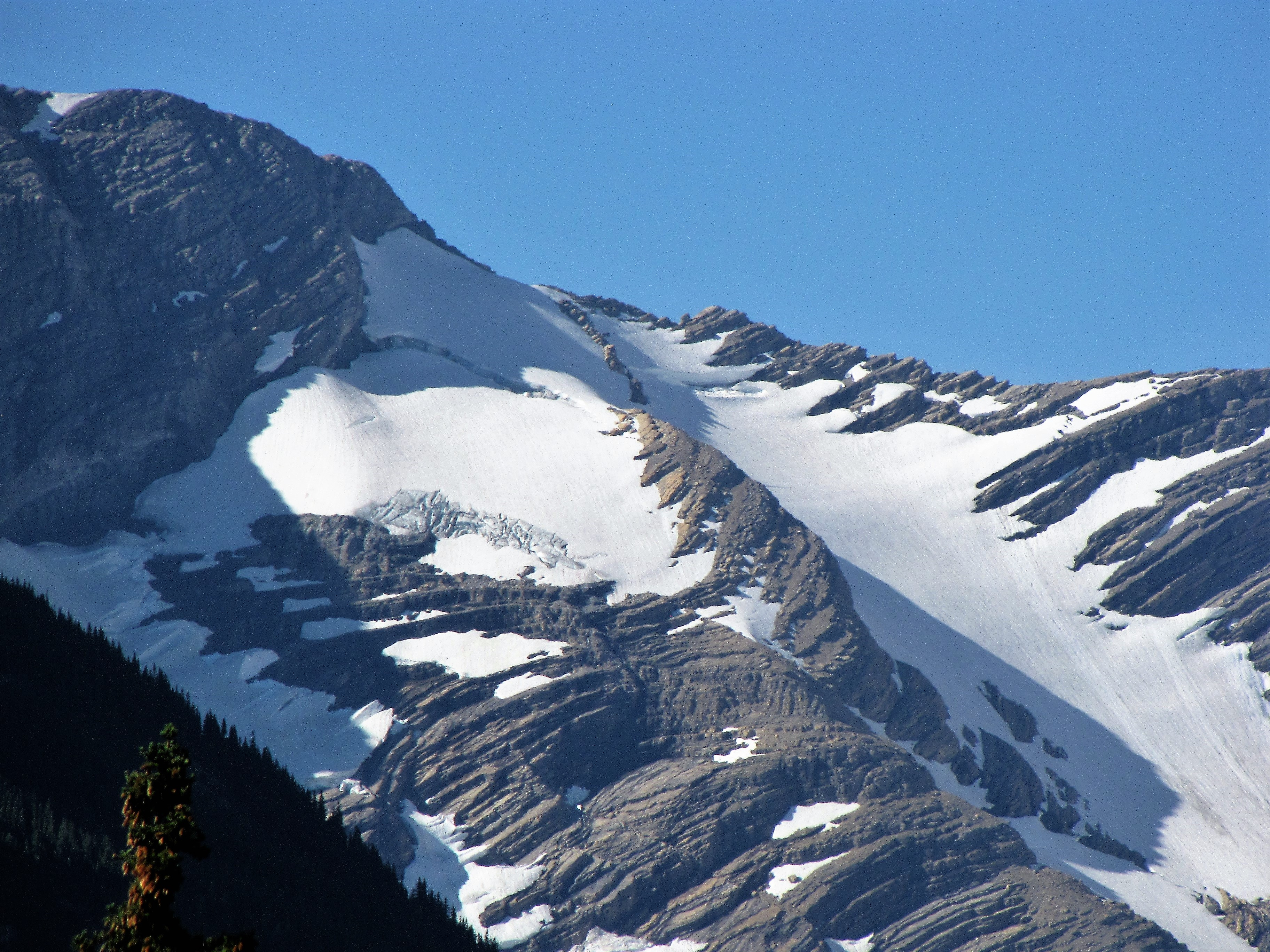 Remnant section of Jackson Glacier, east of main glacier on mountainside near to where Jackson and Blackfoot Glaciers used to be connected, Glacier National Park, Montana